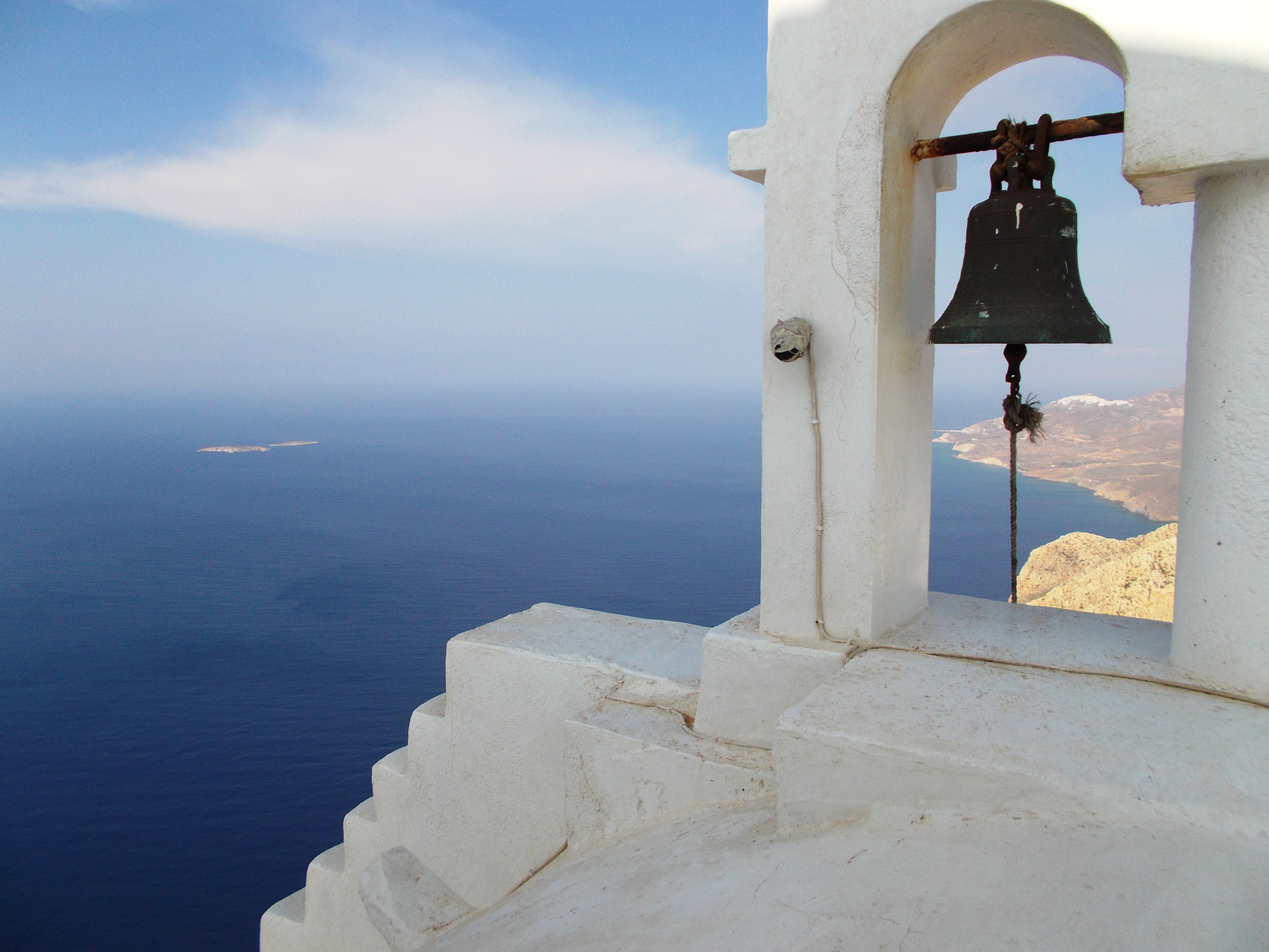 This is a photography of Natura 2000 protected area with ID GR4220002